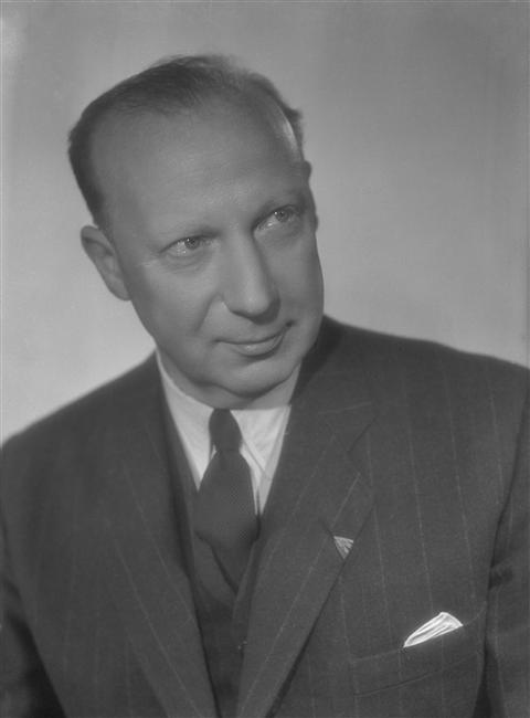 Studio photo